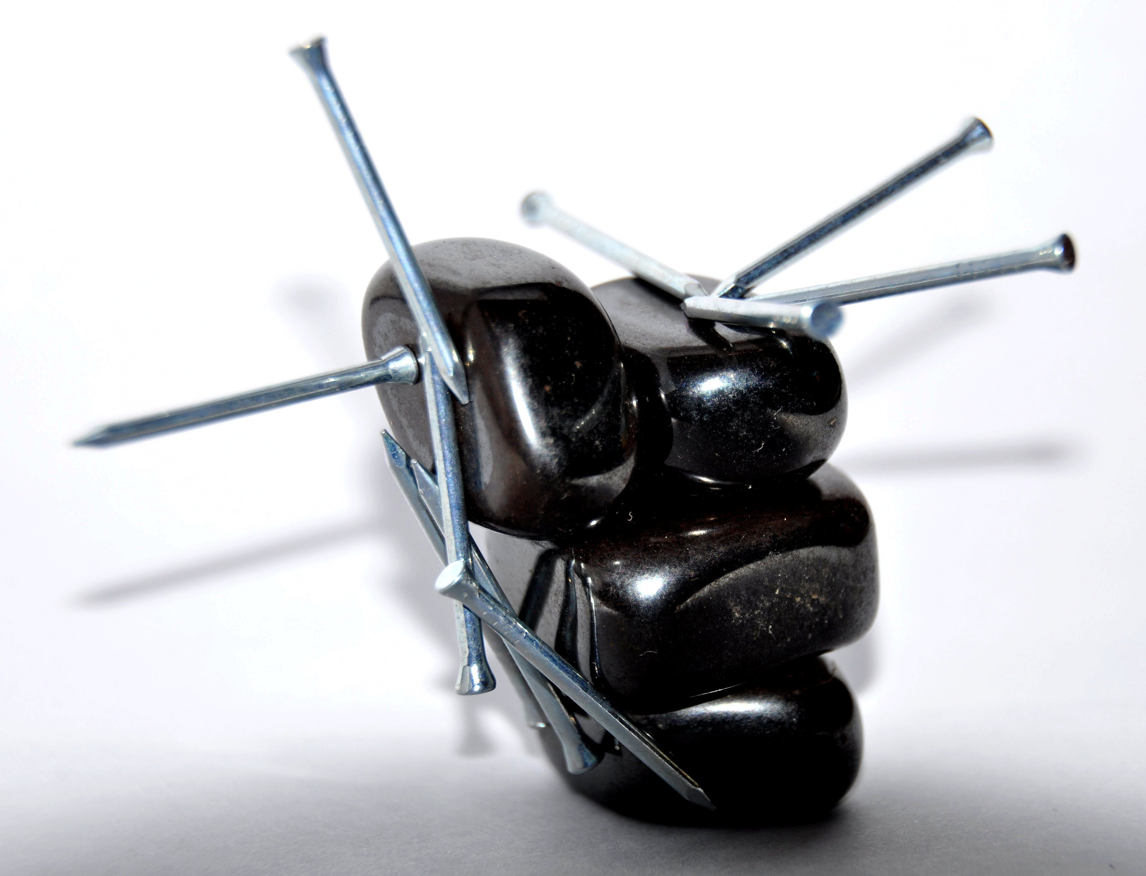 Mineral magnetite (lodestone), from Tortola, British Virgin Islands.